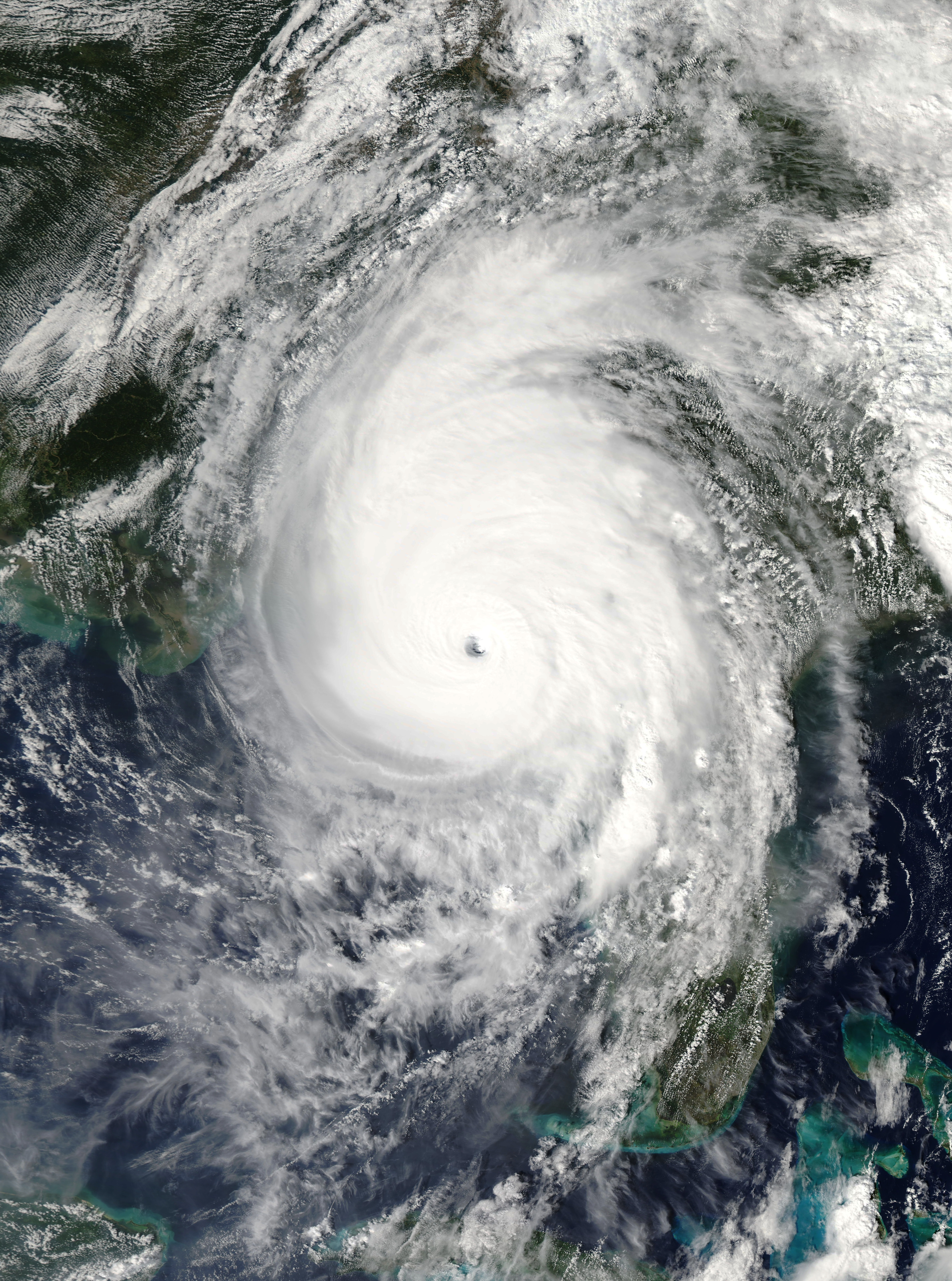 Hurricane Michael on October 10, 2018